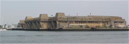 An original photograph of the submarine base at Keroman taken by me from the Port Louis ferry in August 2005